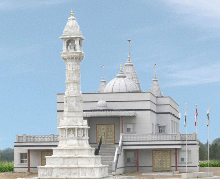 The first Jain temple in Canada that has been built using traditional Indian architecture (shikharbandi).